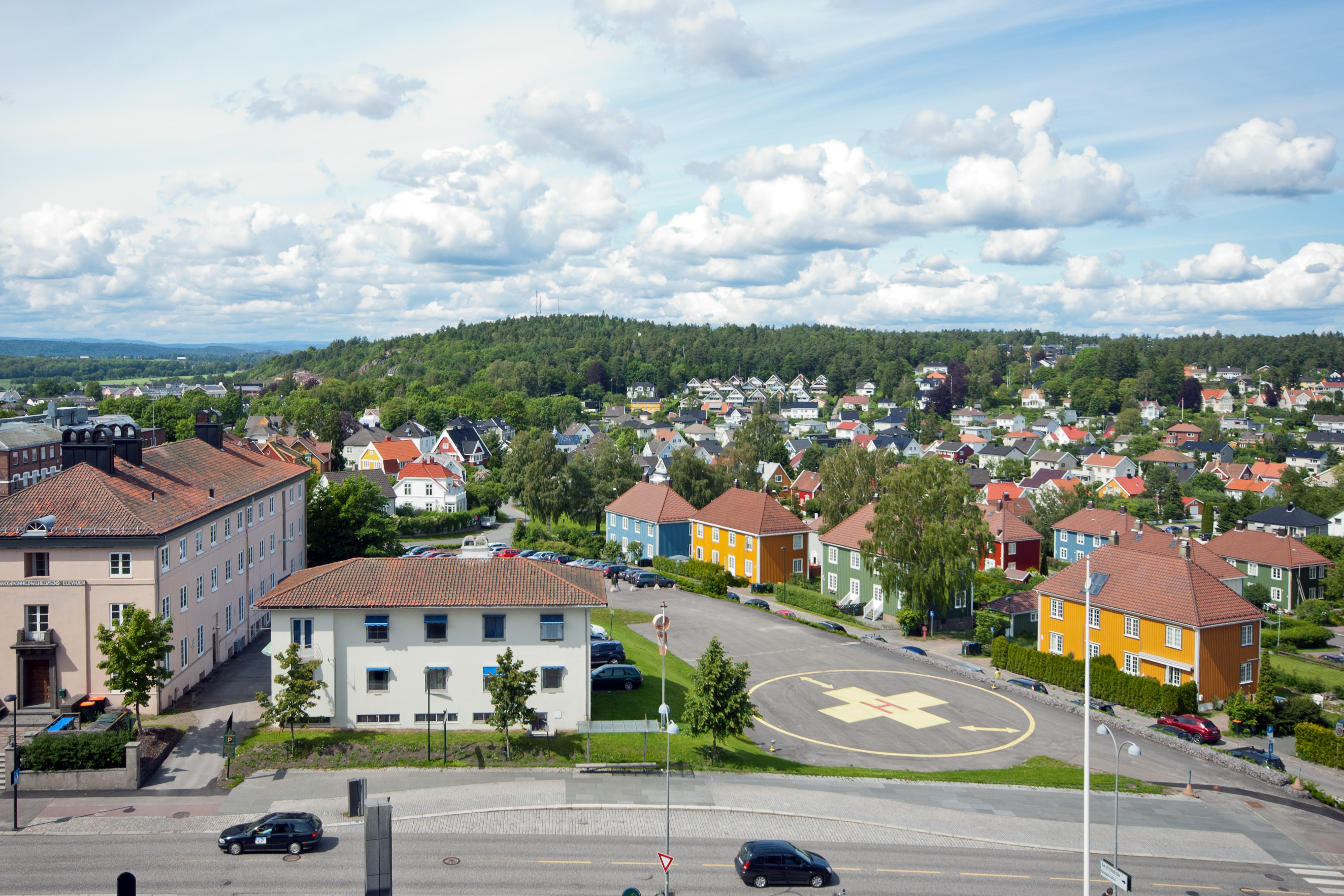 Frodeåsen in the background, seen from the hospital. Frodeåsen is a 75m high hill in Tønsberg, Vestfold, Norway. The hospital's emergency helicopter landing pad in the foreground.